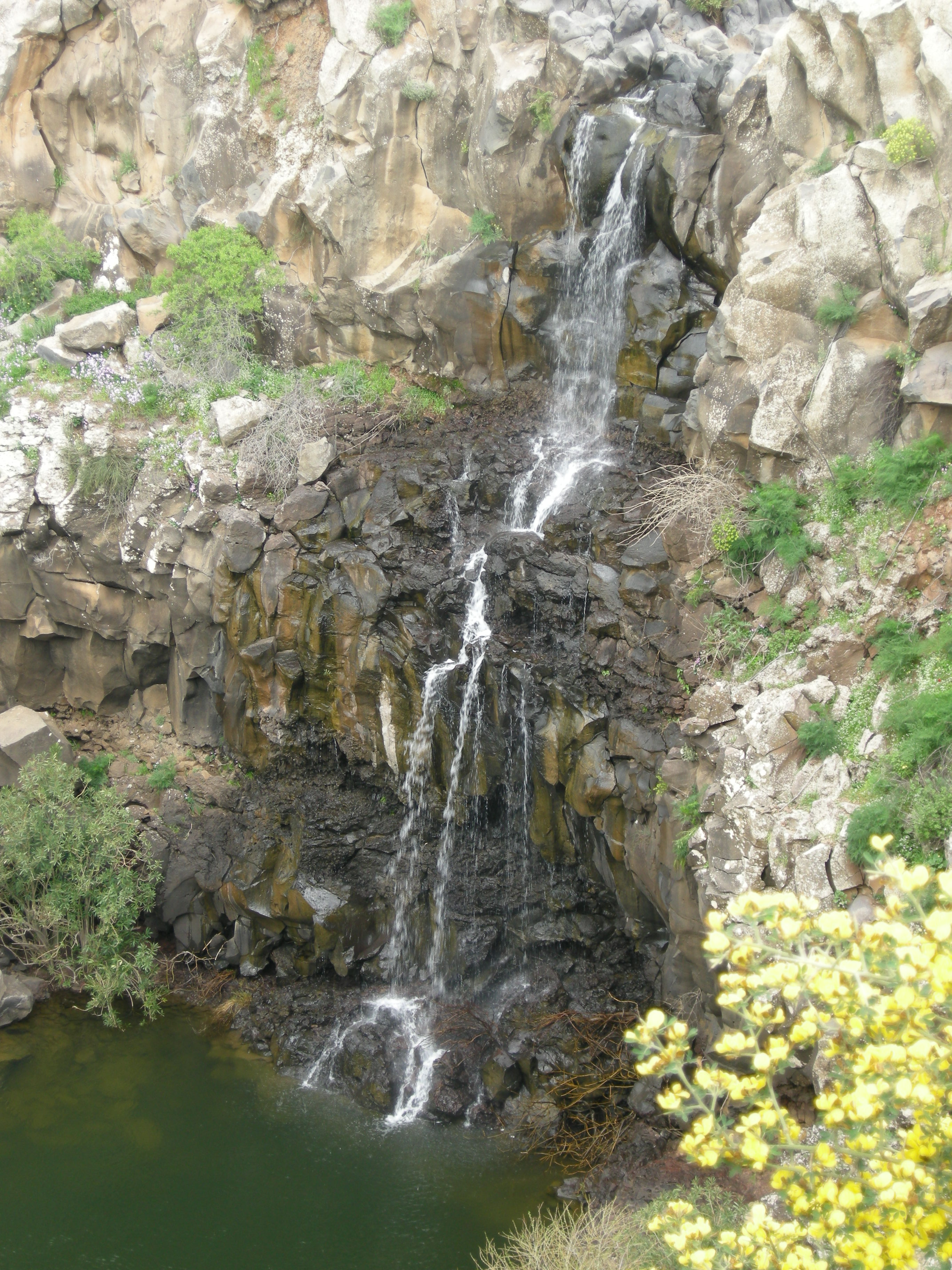 Visit in the Iris waterfall near Katzrin , Golan Heights